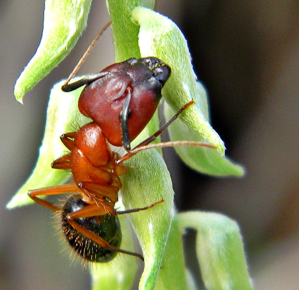 One of my arboreal carpenter ant friends searching for nectar treats on a rattlebox plant (Crotalaria sp.) at Juno Dunes Natural Area. Some plants have extrafloral nectaries that reward ants with nourishing sweet nectar in return for protection from enemies! This one is a major worker. More on extrafloral nectaries